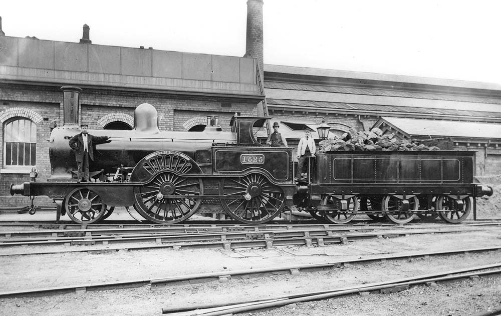 Photograph of LNWR engine No. 1525 'Abercrombie'